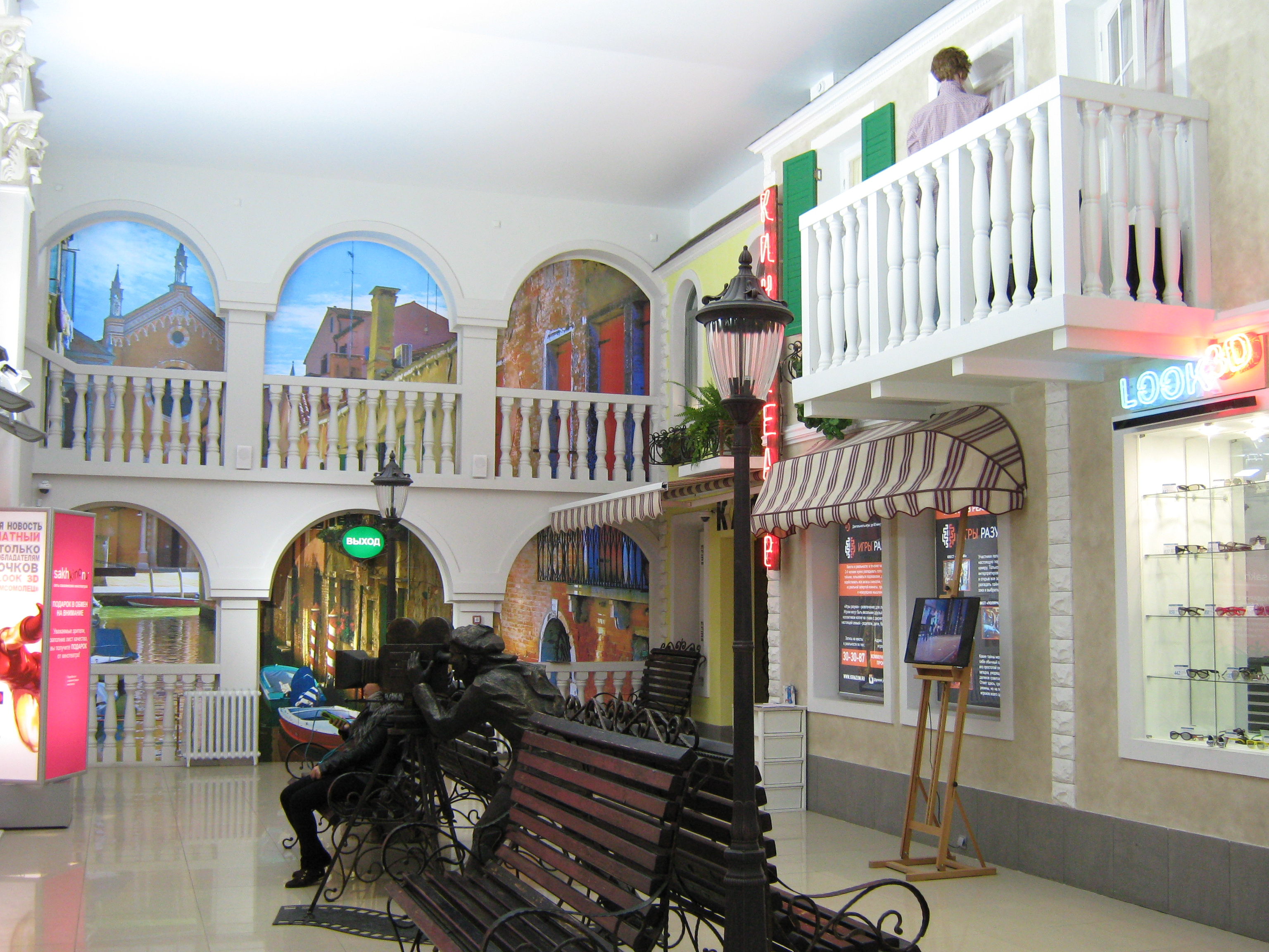 In the lobby of Komsomolsky cinema in Yuzhno-Sakhalinsk